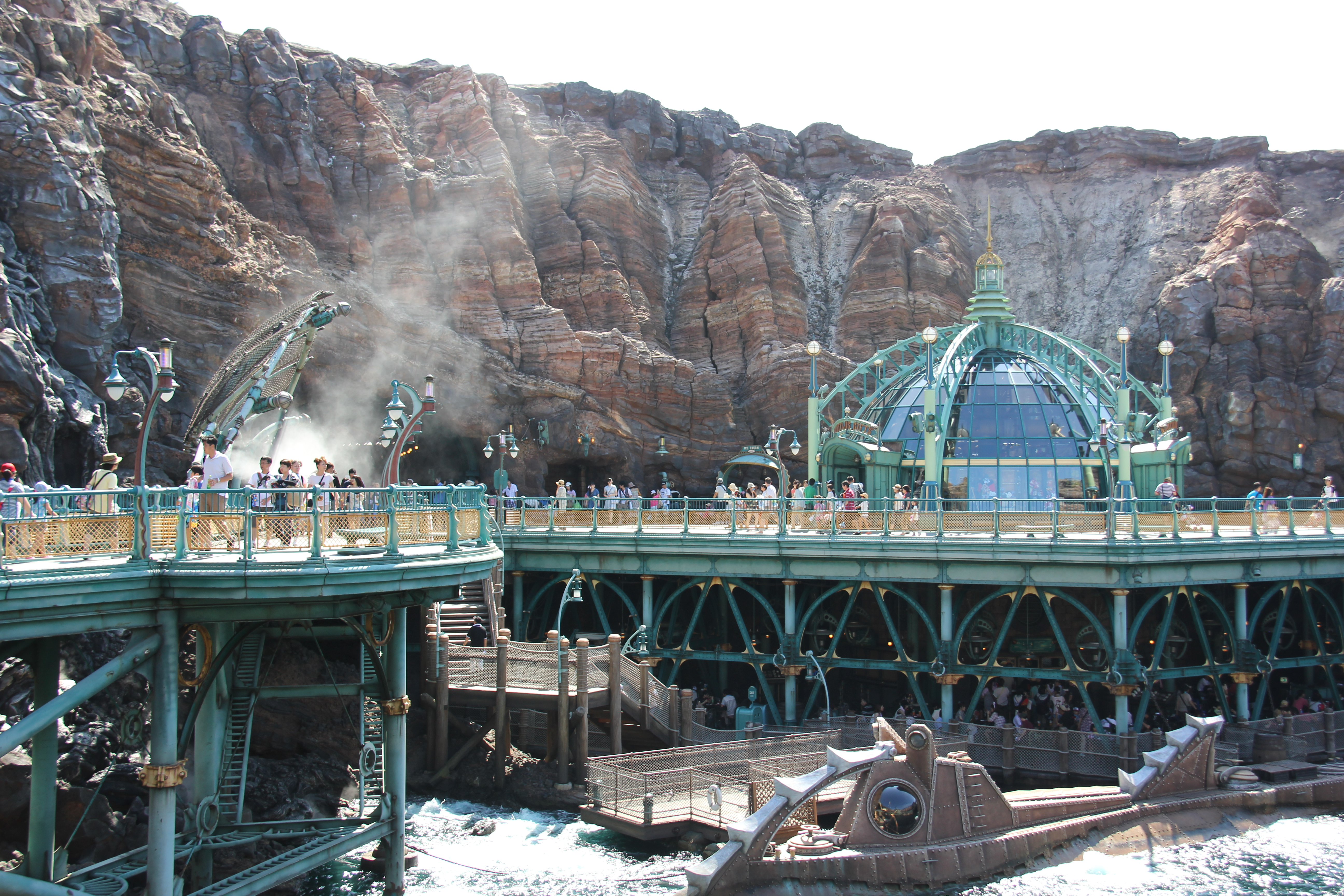 Tokyo DisneySea